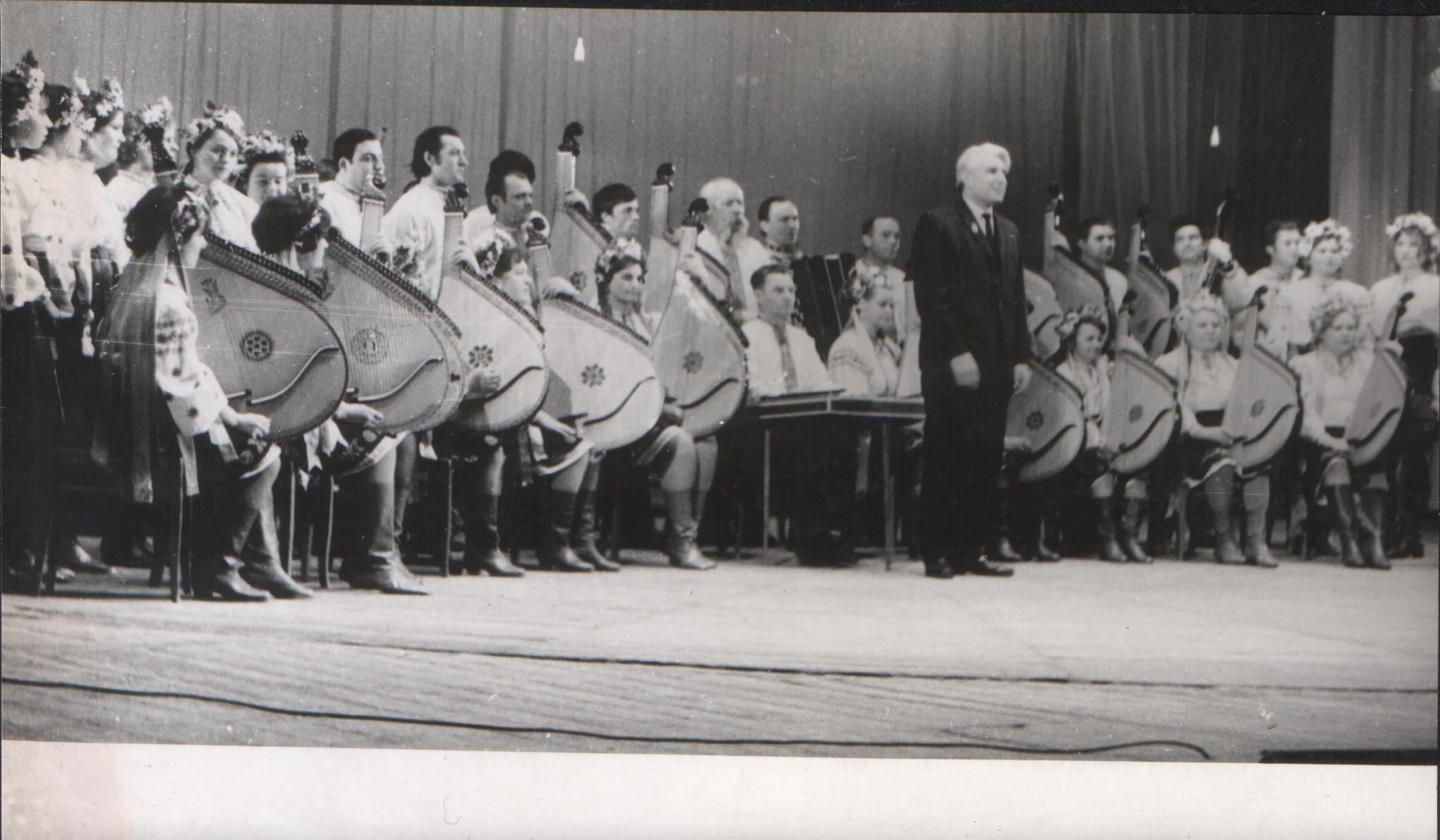 The conductor of orchestra - Andriy Bobyr